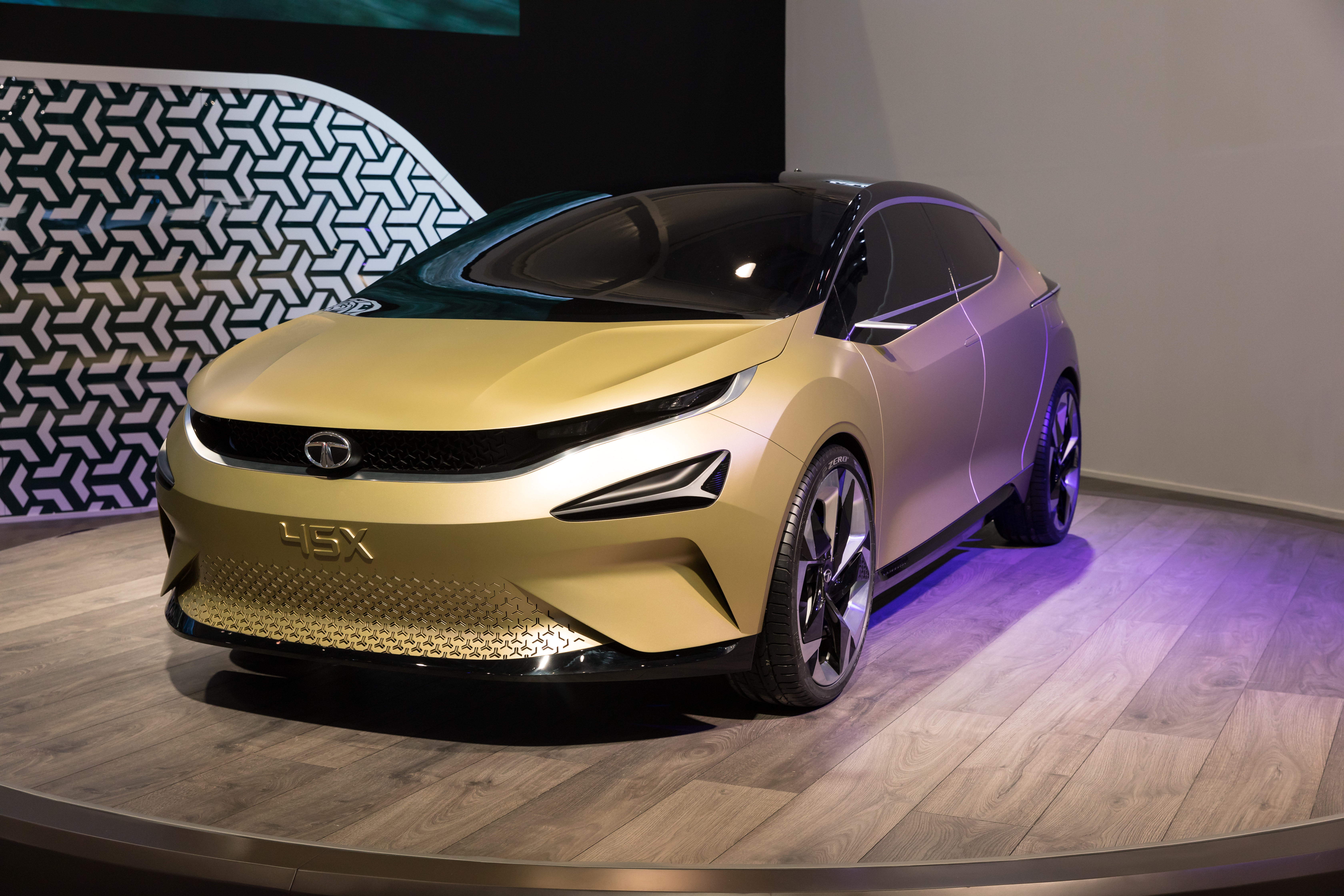 Tata Motors 45X Concept at Geneva International Motor Show 2018